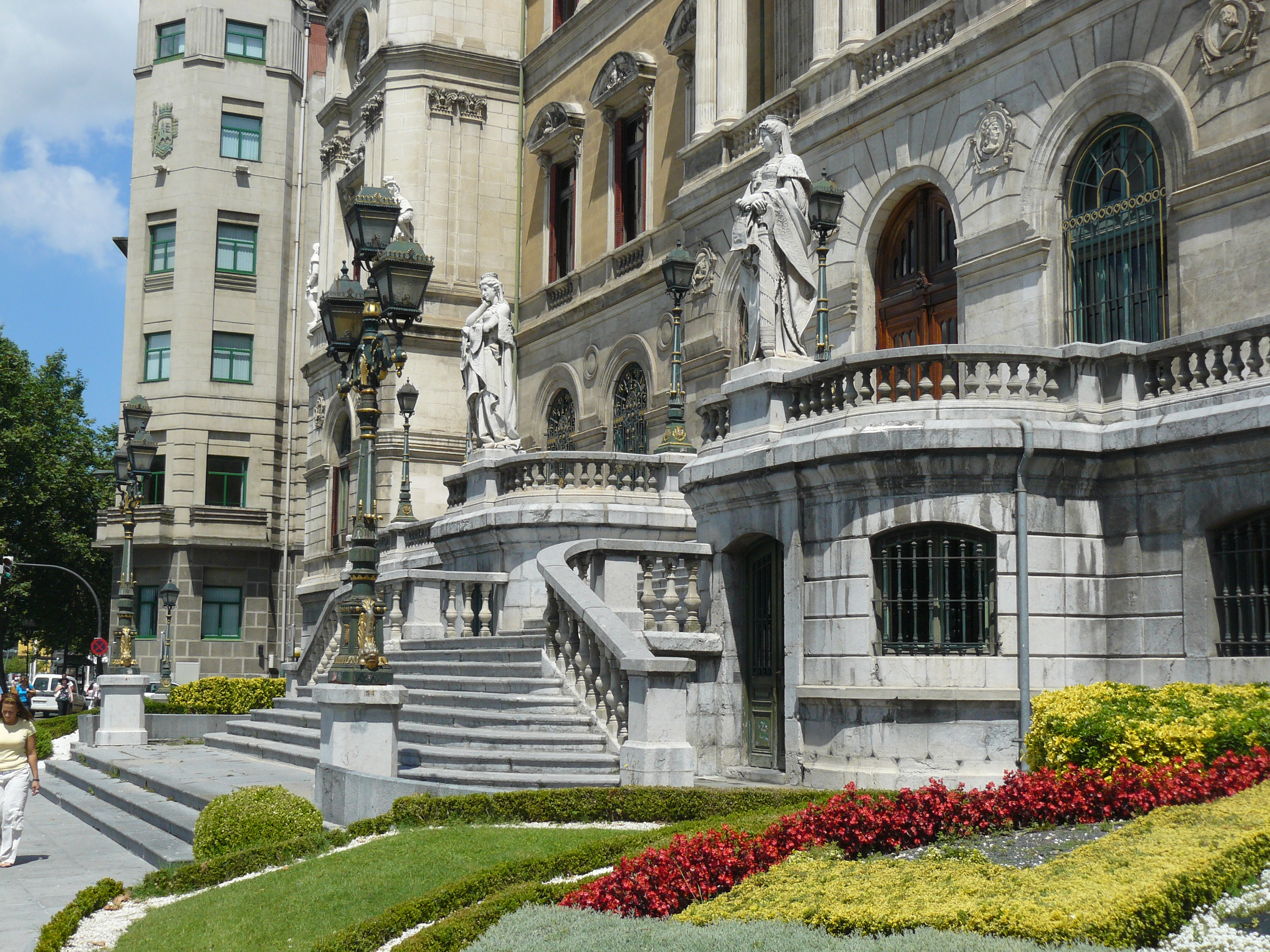 Bilbao city hall